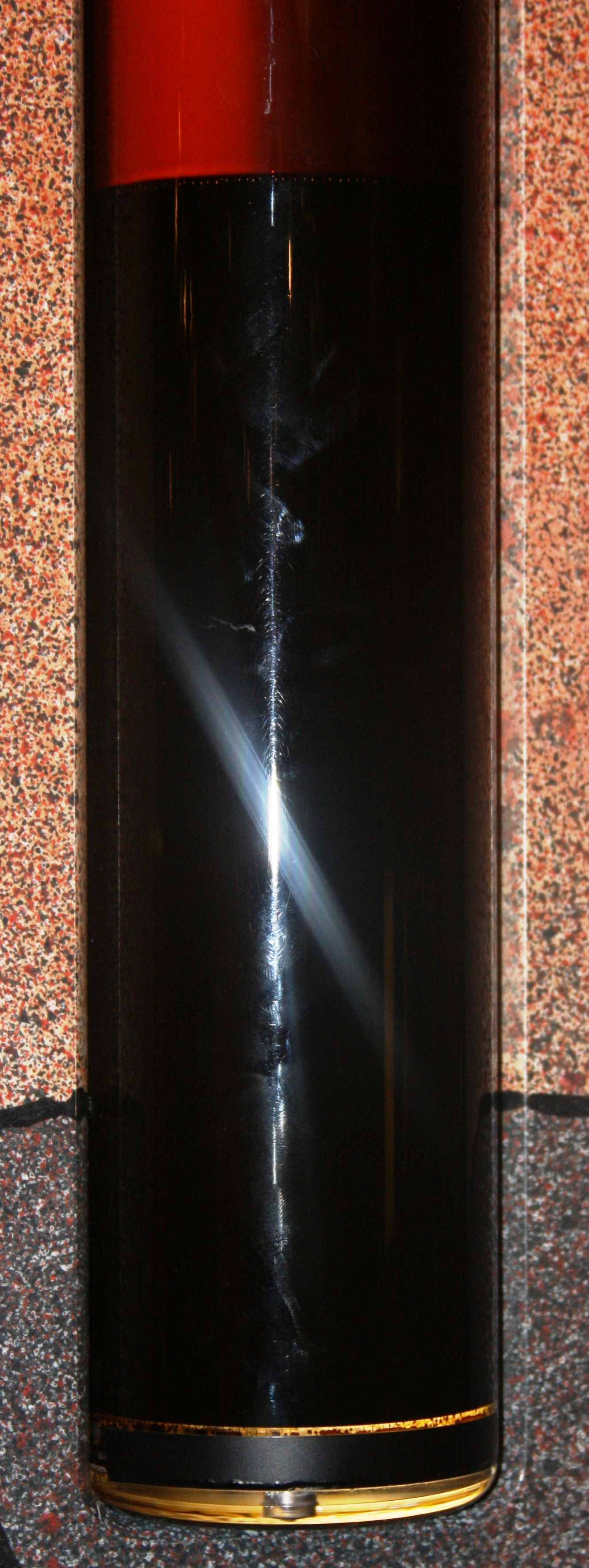 North Sea Oil from the Norwegian continental shelf. This oil is from the Heidrun field. API value = 22.3. Viscosity at 50 degrees Celsius = 25.2 mPas.